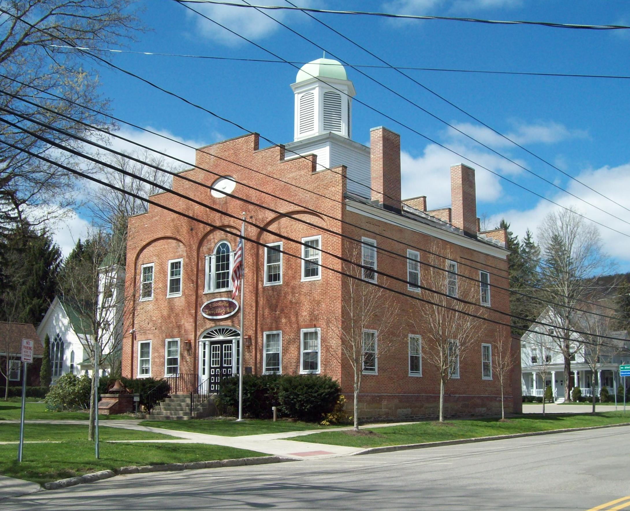 Ellicottville Town Hall, June 2009